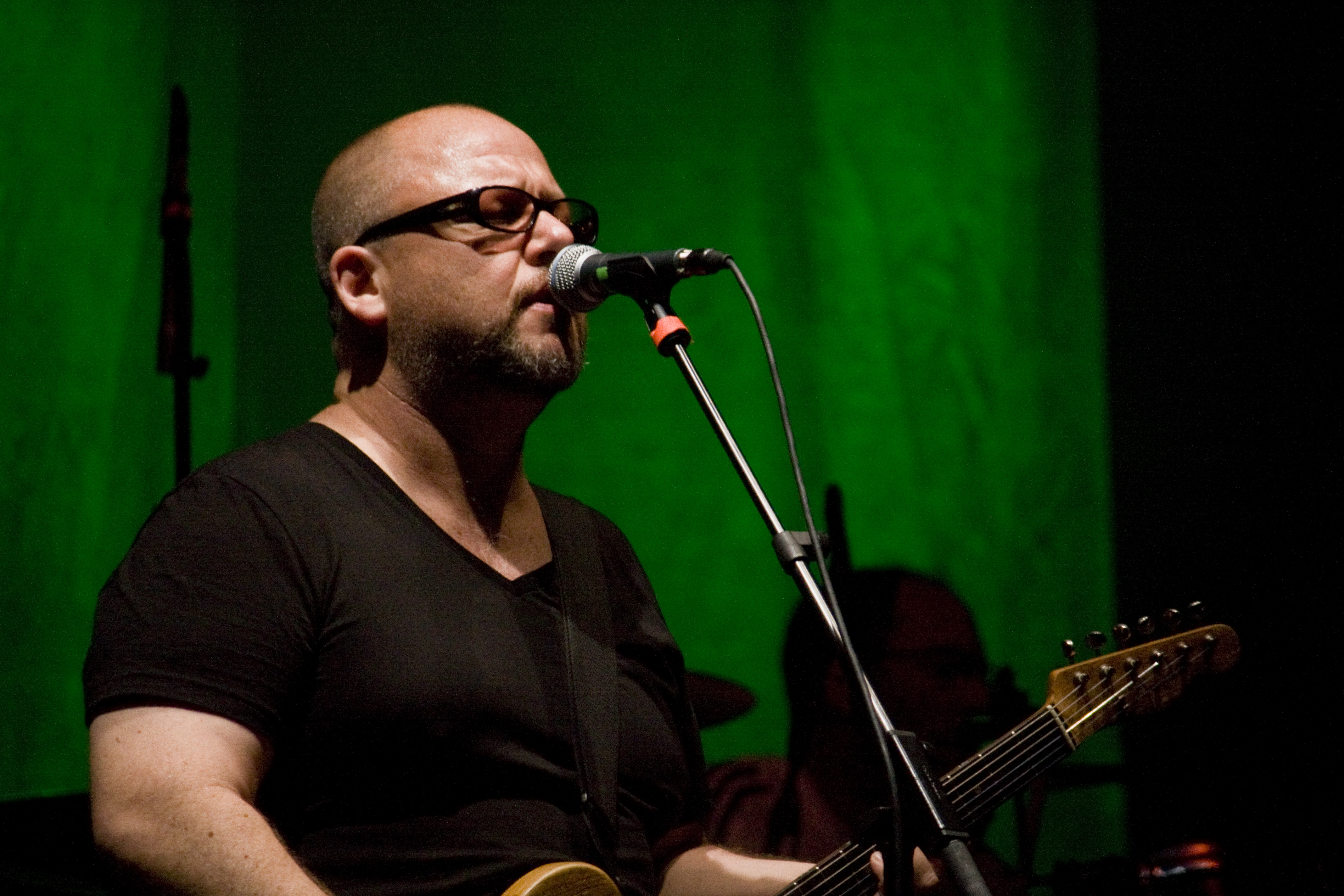 Frank Black (Pixies) in Primavera Sound Festival 2010, Barcelona, Spain.